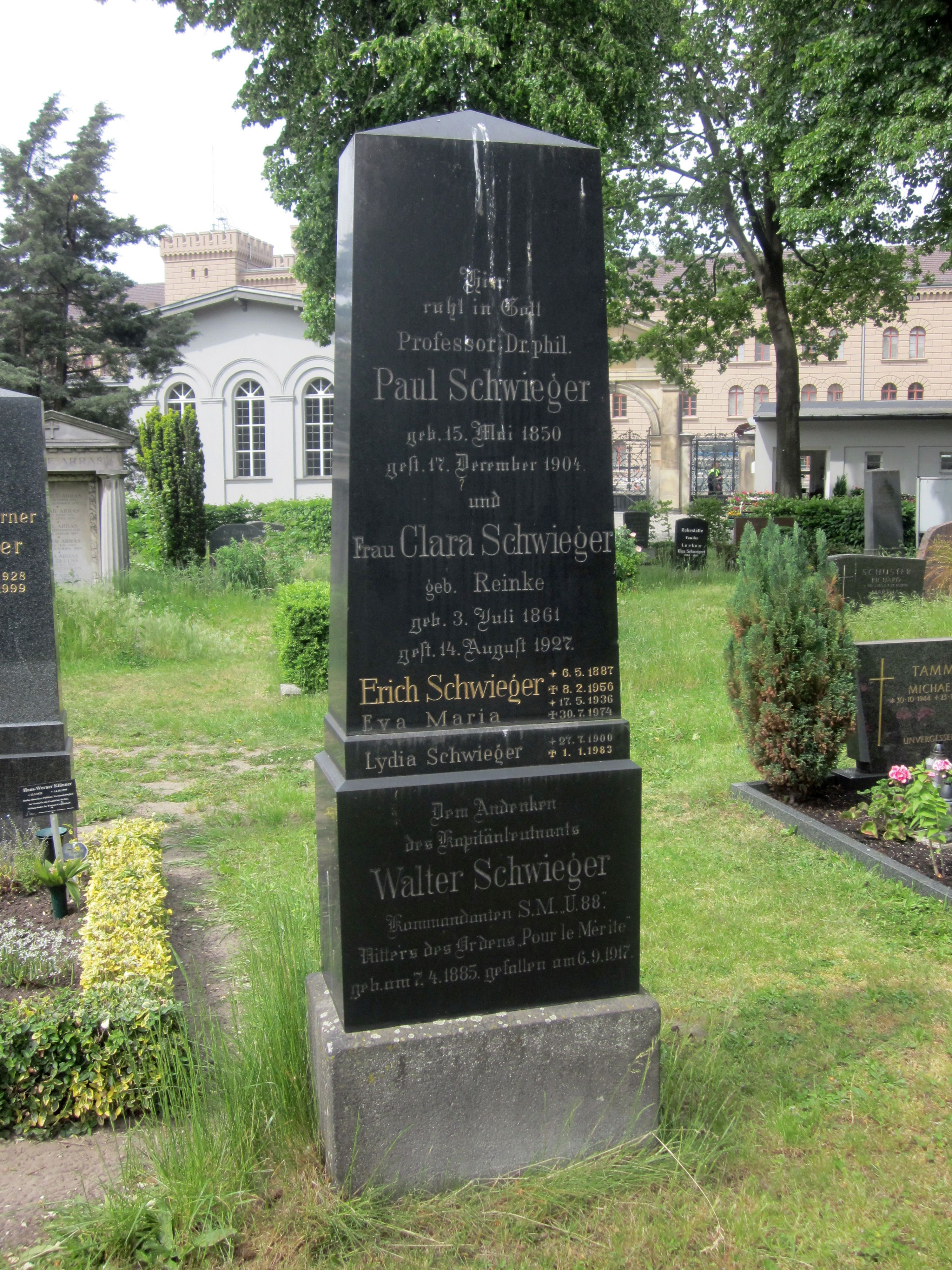 Family grave of the Schwieger family on Cemetery III of the Jerusalem and New Church in Berlin-Kreuzberg. Above the pedestal of the gravestone is an "in memoriam" inscription for Kapitänleutnant Walther Schwieger (1885-1917) who died in WWI when "SM U 88" sank.